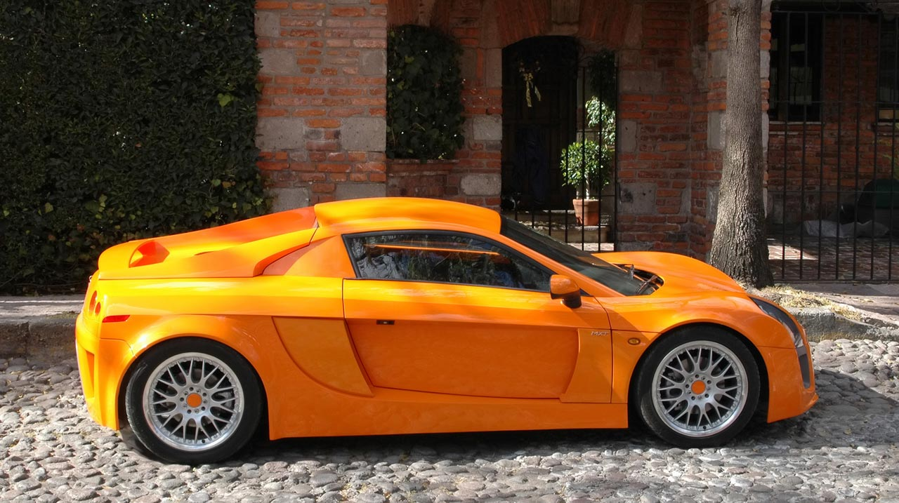 Mastretta Mexican Sport Car